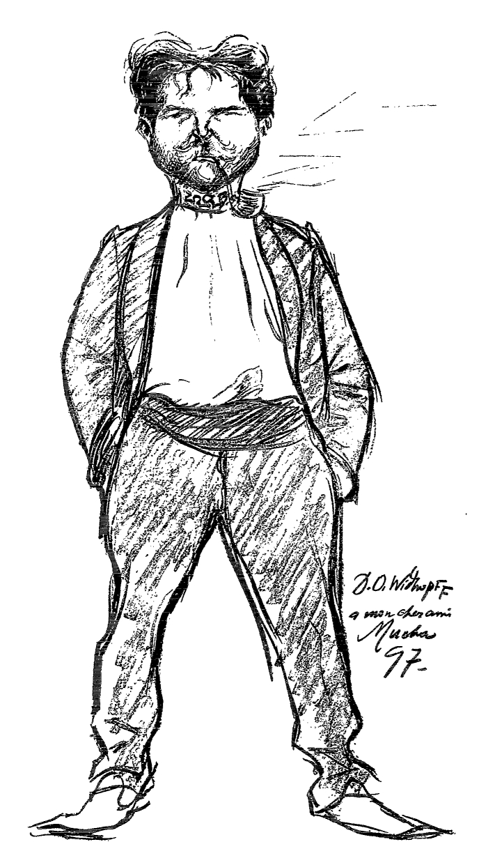 Portrait charge d'Alfons Mucha (1860-1939) par David Ossipovitch Widhopff (1867-1933)